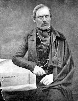 Photo taken by Mandelgren himself.